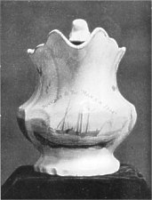 A commemorative jug manufactured from what was referred to as "Liverpool transfer Ware," bearing the inscription, "Success to the Mona's Isle."